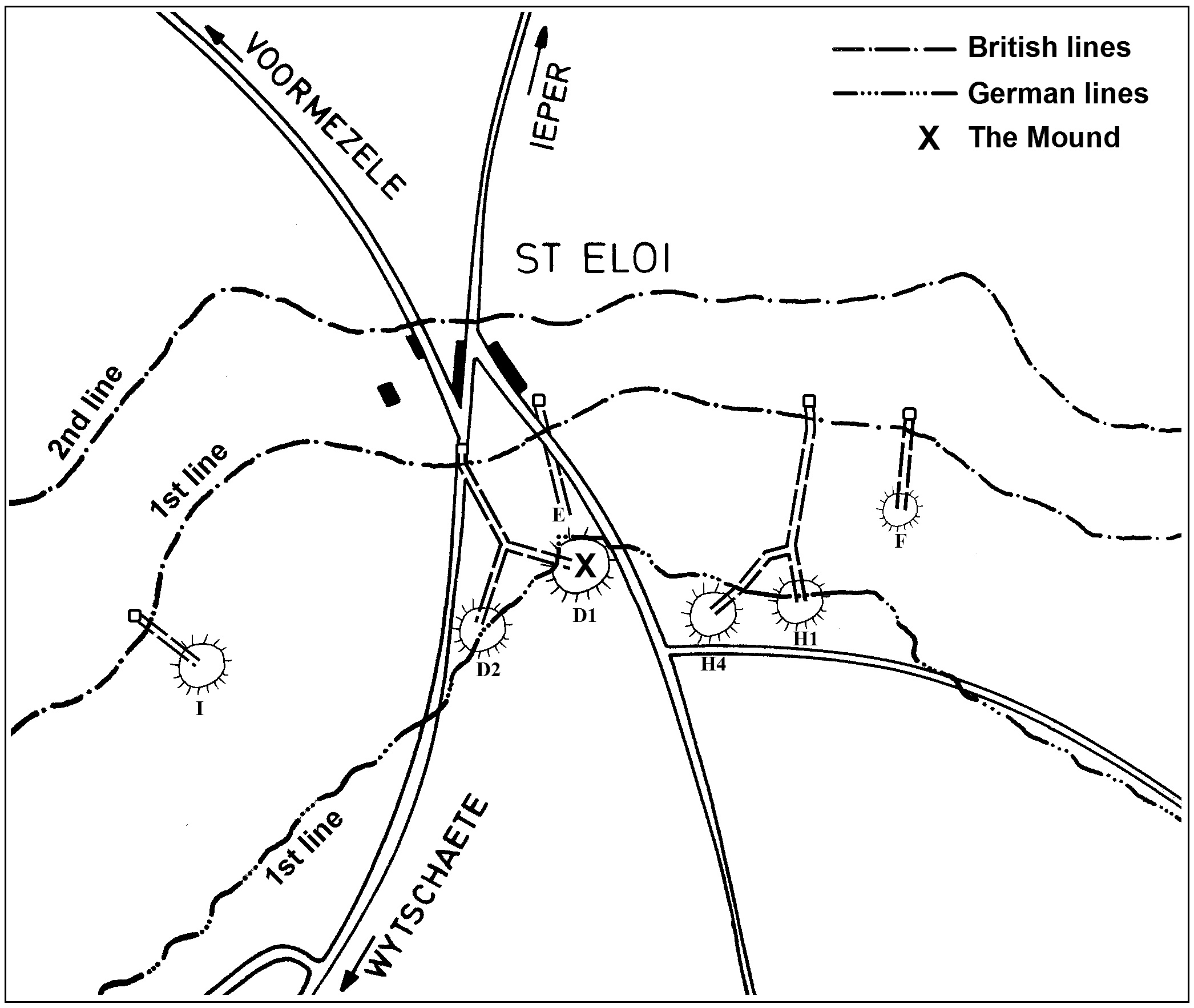 Map of St Eloi with evidence of British mining: plans of the six deep mines fired on 27 March 1916 at the start of the Battle of St Eloi Craters. This drawing is based on the plans published in Roger Lampaert, De Mijnenoorlog in Vlaanderen 1914–1918, Roesbrugge/Belgium (Drukkerij Schoonaert) 1989; Peter Barton/Peter Doyle/Johan Vandewalle, Beneath Flanders Fields: The Tunnellers' War 1914-1918, Staplehurst (Spellmount) 2005; Simon Jones, Underground Warfare 1914-1918, Barnsley (Pen & Sword Books) 2010, p. 100